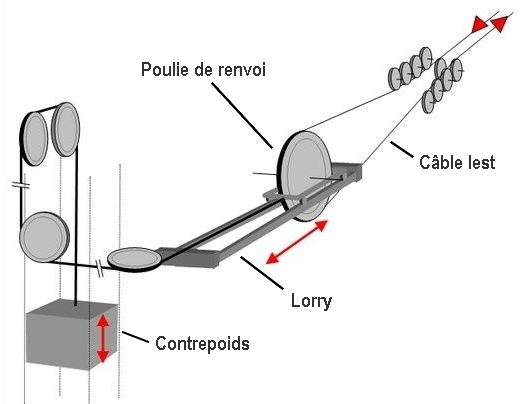 funicular contre-tractor cable